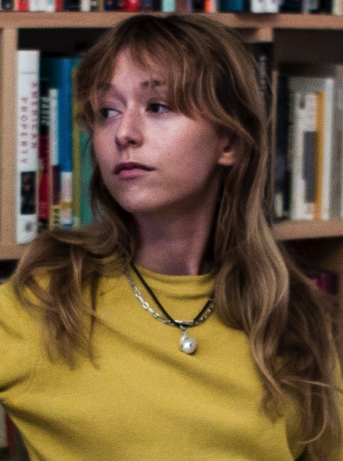 India Ennenga in interview